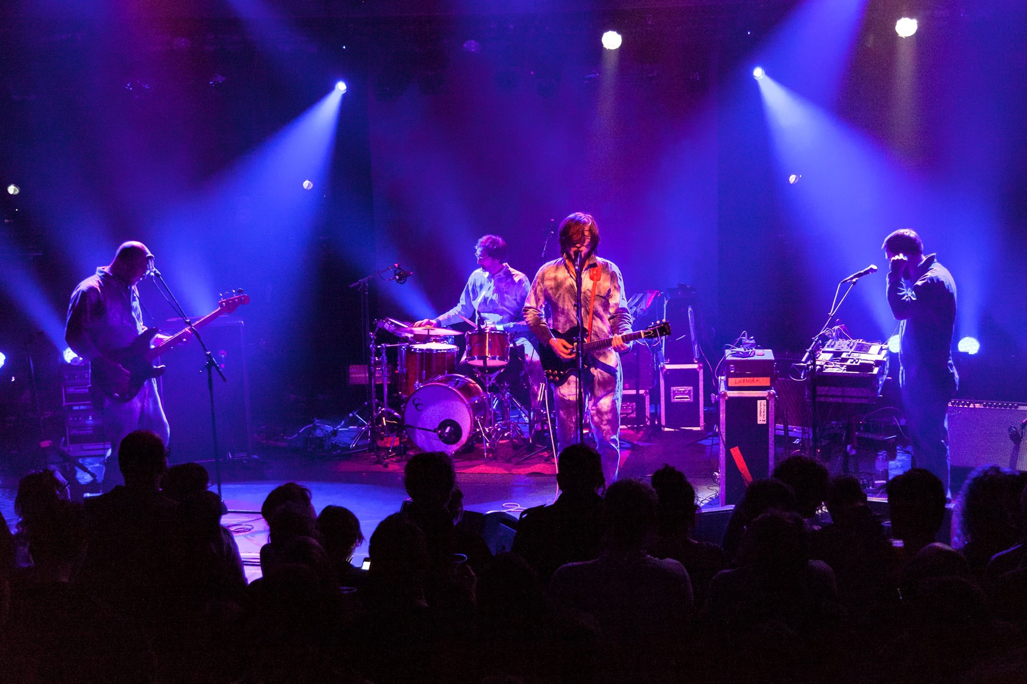 LNZNDRF